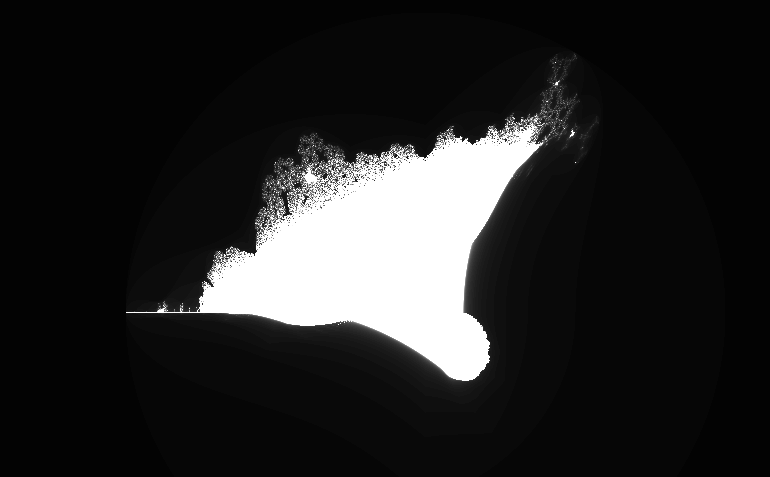 A view of the complete burning ship fractal, in greyscale.